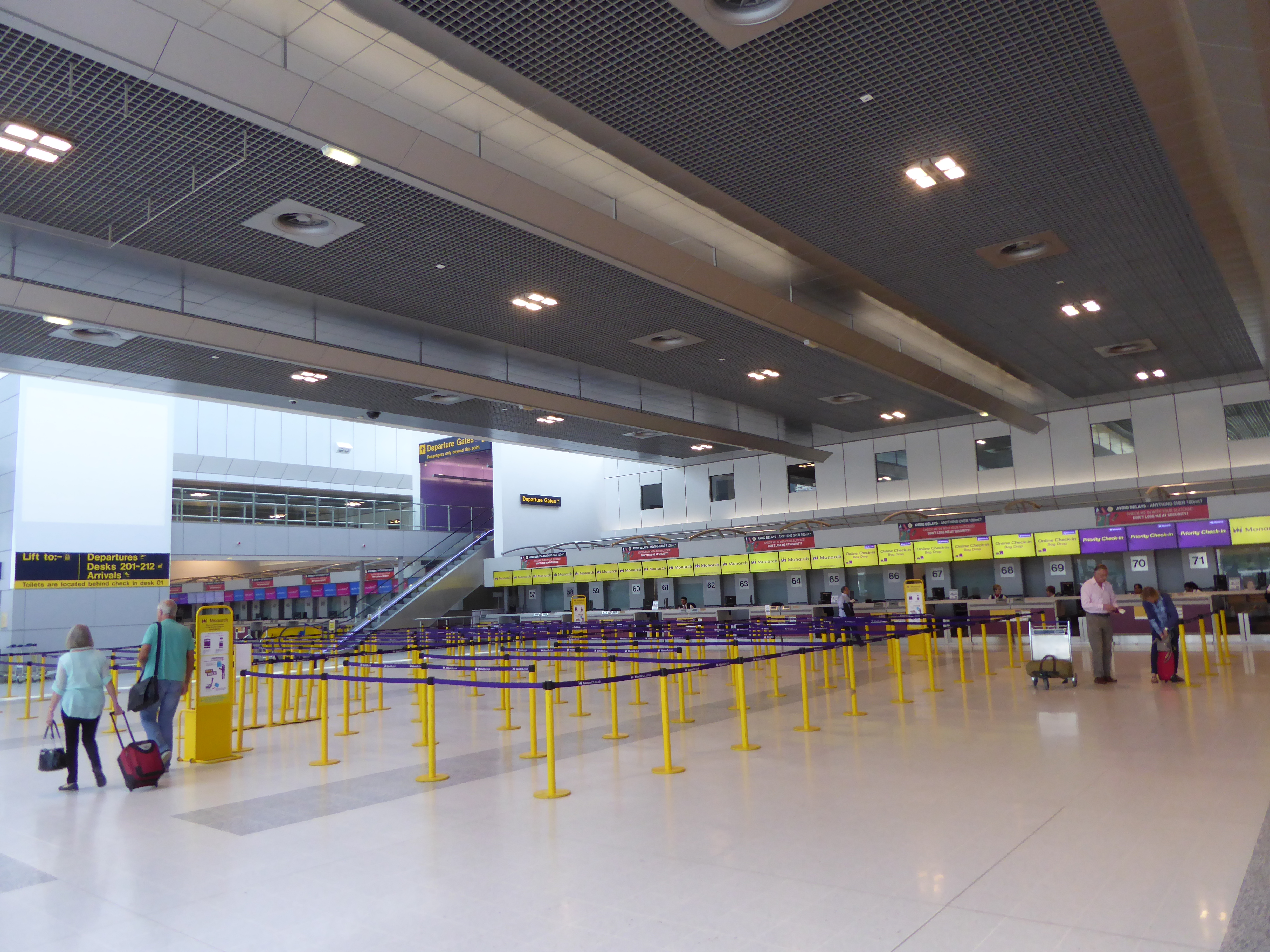 Terminal 2, Manchester Airport, Manchester, Greater Manchester, England, June 2016